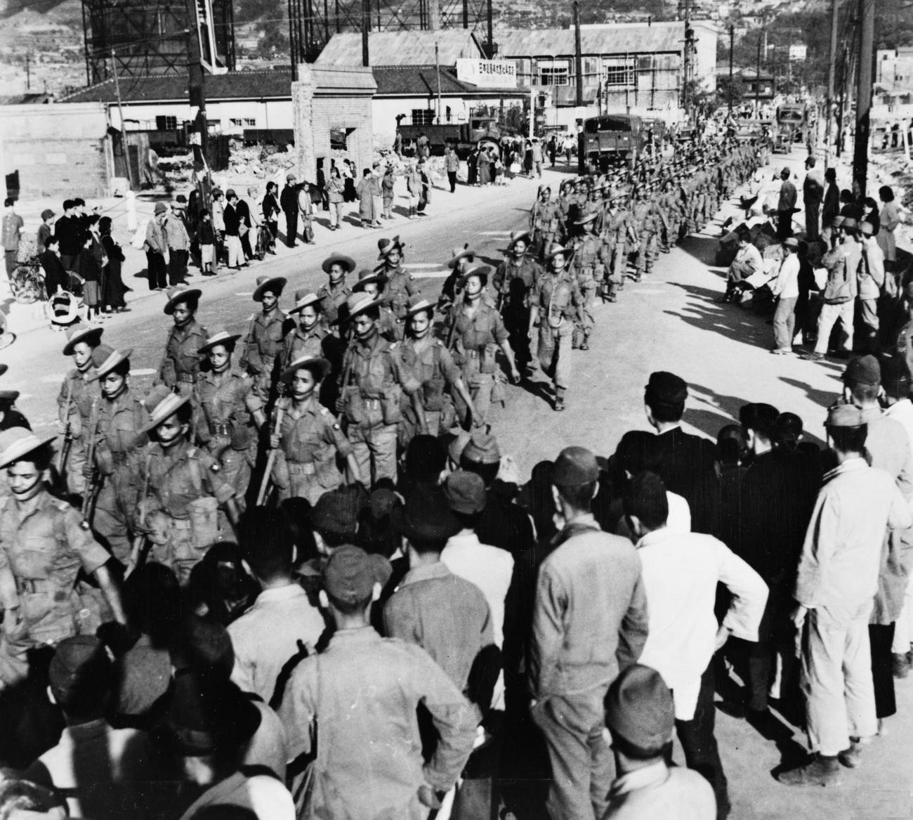 THE ALLIED OCCUPATION OF JAPAN. The 2/5th Royal Gurkha Rifles marching through Kure soon after their arrival in Japan as part of the Allied forces of occupation. FURTHER INFORMATION: In May 1946 the troopship ORDUNA brought 1700 men of the Mahratta Light Infantry and 2/5th Royal Gurkha Rifles to Kure in Japan.